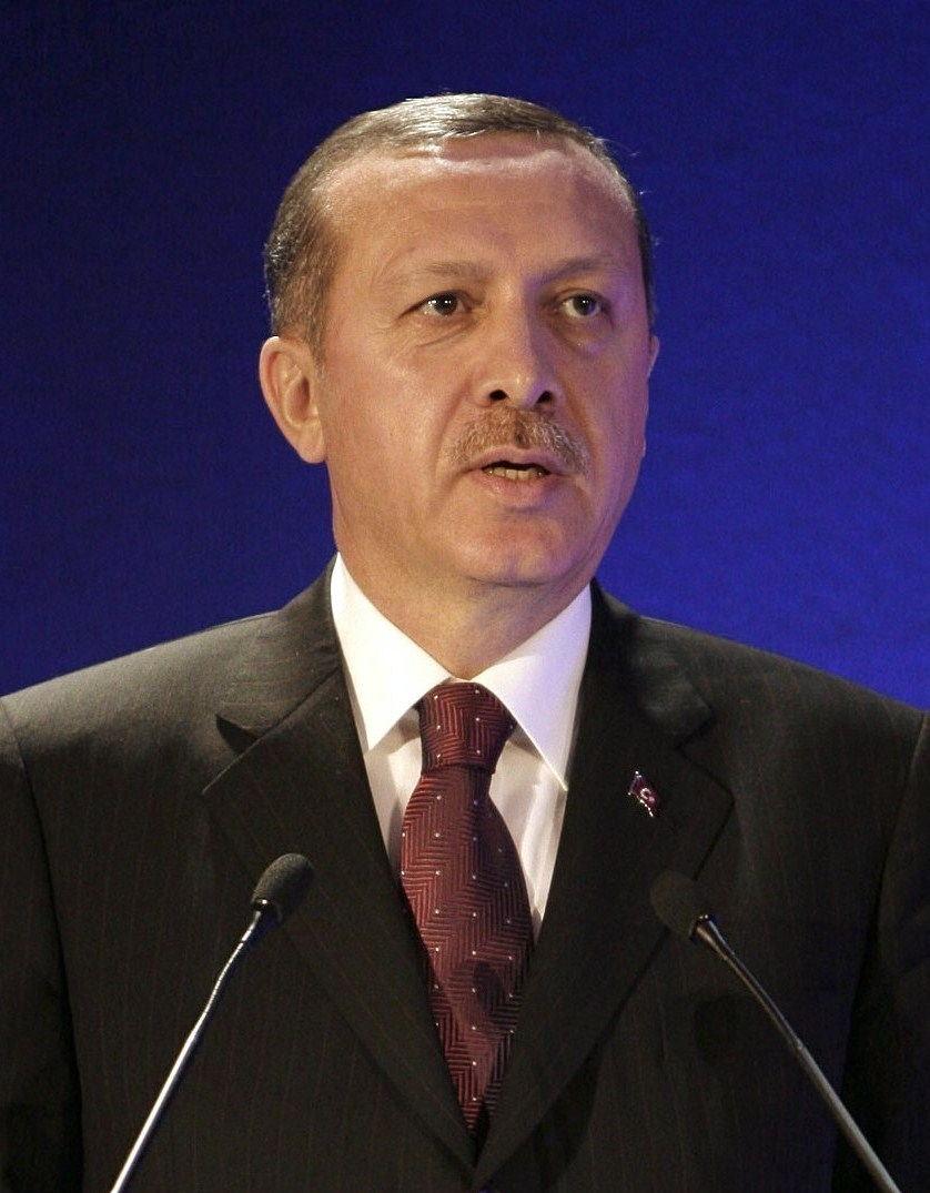 Recep Tayyip Erdoğan, Prime Minister of Turkey speaking during the Opening Plenary "Leadership in a Changing Political Landscape" at the World Economic Forum on Europe and Central Asia in Istanbul